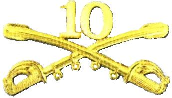 United States Crossed Cavalry Sabers, 10th Cavalry, paint shop modified from hand drawn color sketch with a number 10.